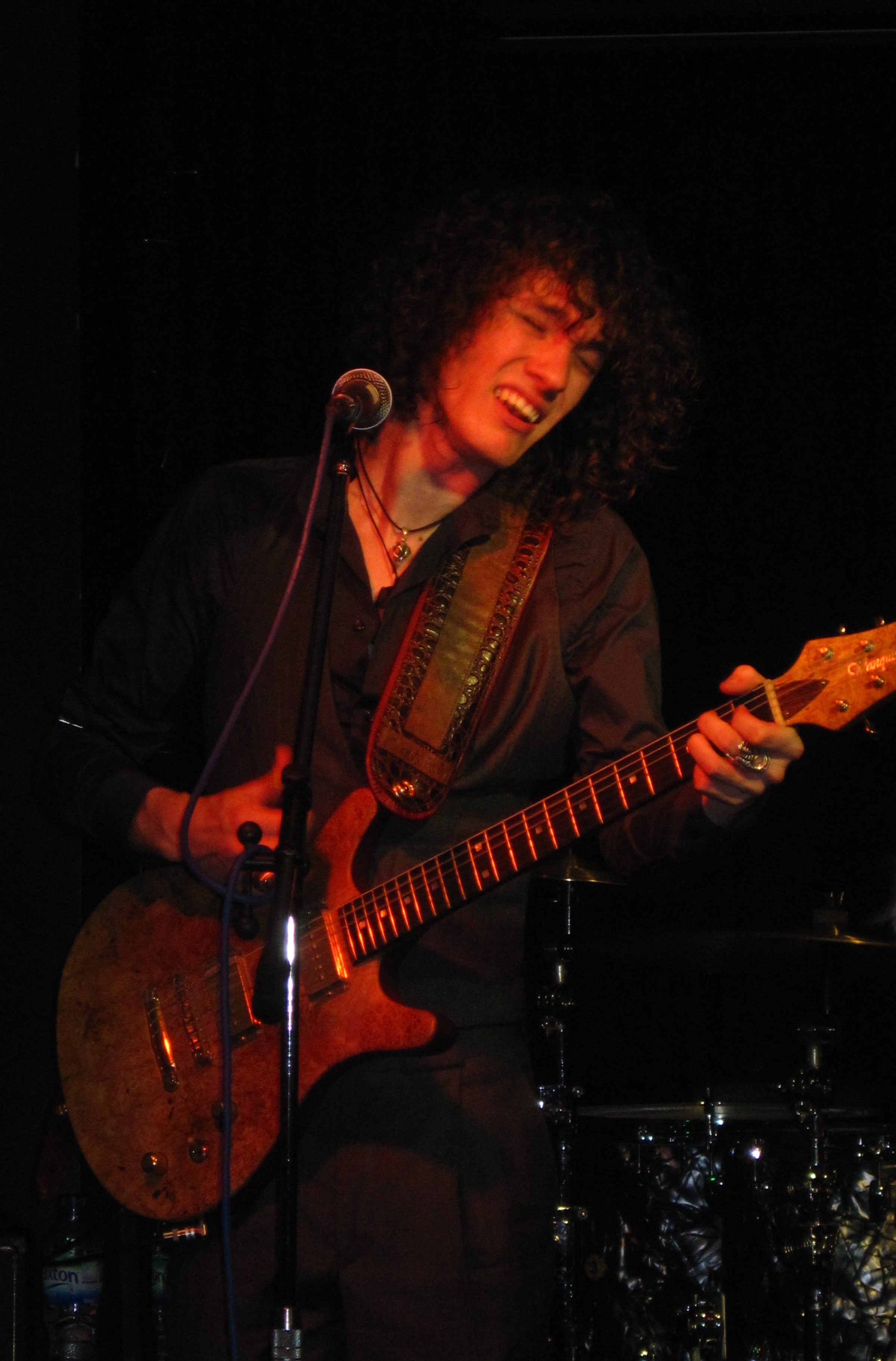 Oli Brown live at the Scarborough Blues Club, 12th April 2011